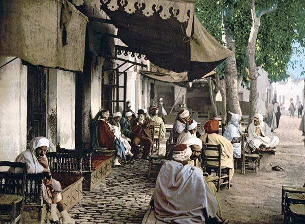 Photograph of outside a Moorish cafe, Tunis. This color photochrome print was taken in 1899 in Tunis, Tunisia.